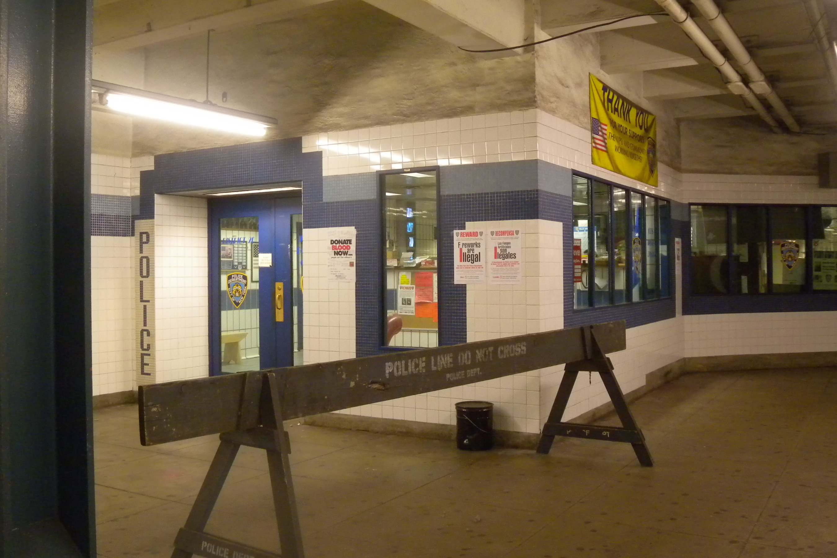 Looking north at police station at north end of station.